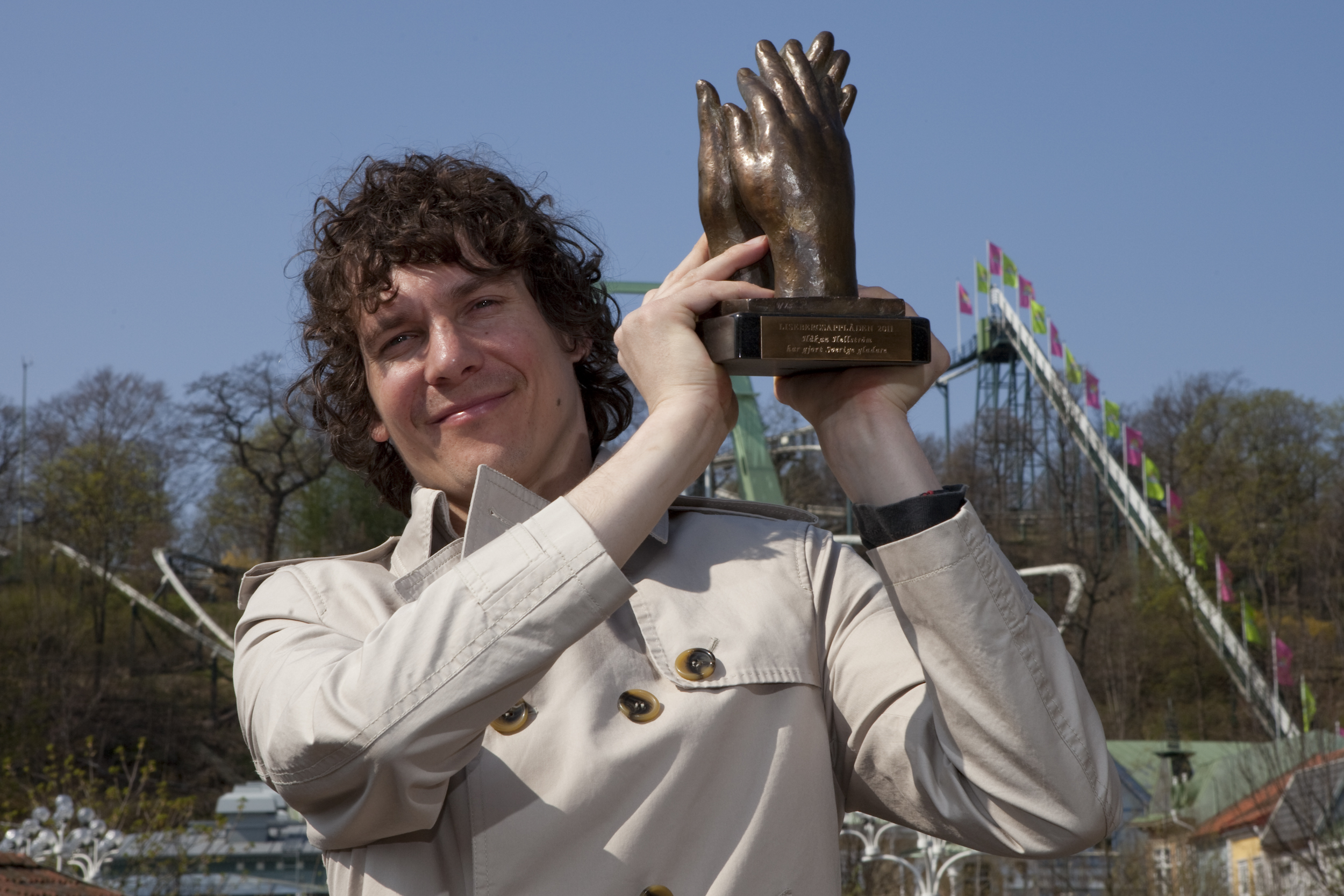 Swedish artist Håkan Hellström accepting Lisebergsapplåden 2011